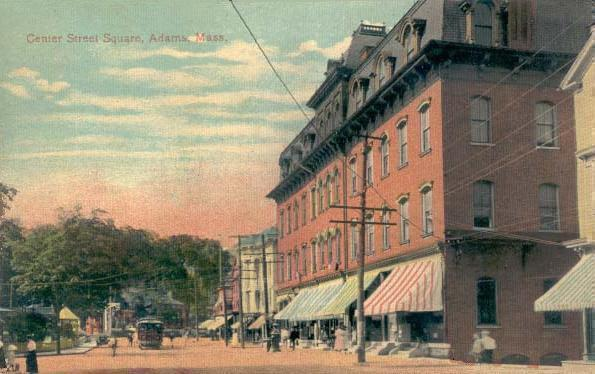 Center Street Square, Adams, MA; from a c. 1910 postcard.